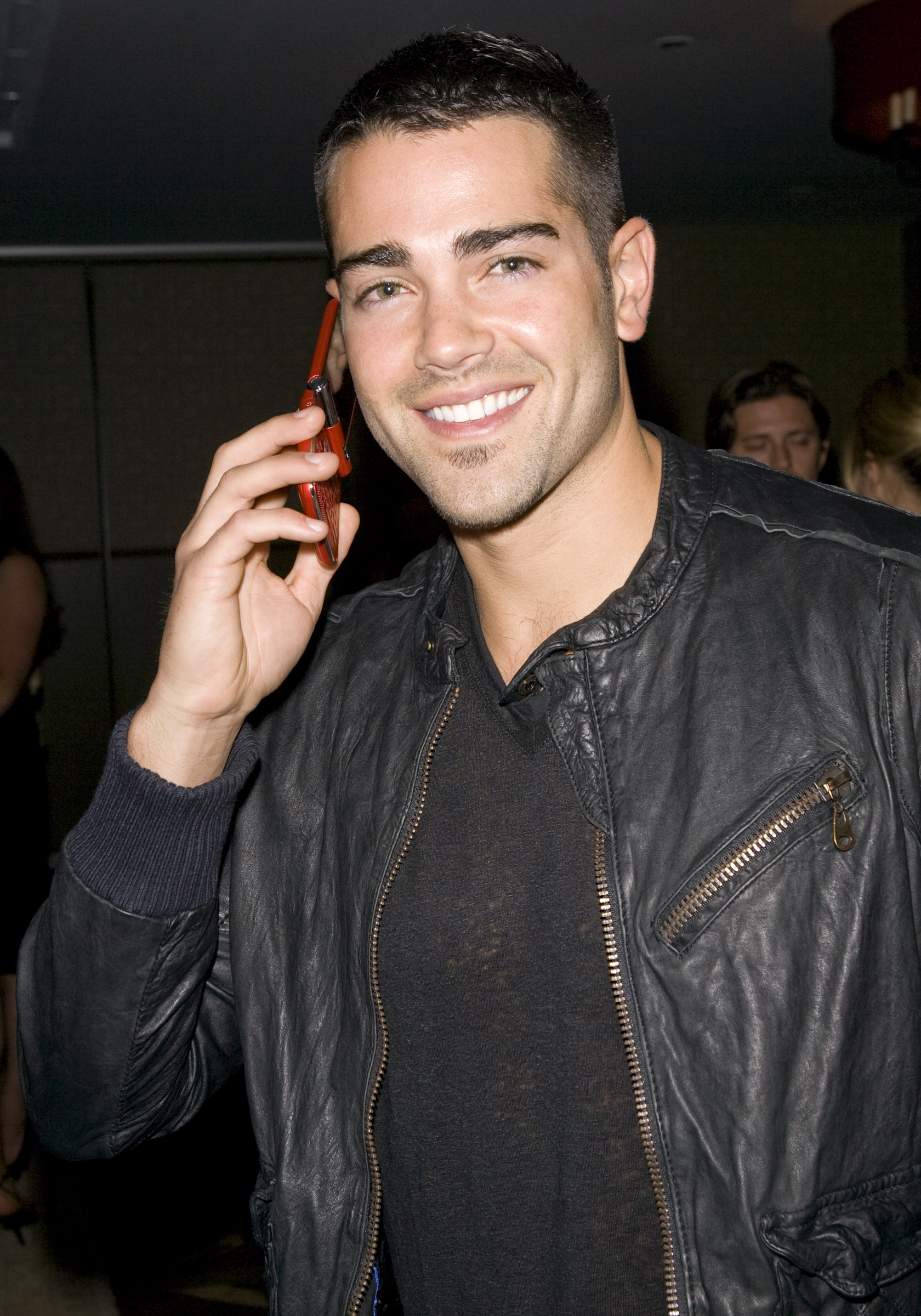 LG Mobile Phone Touch Event. Actor Jesse Metcalfe.